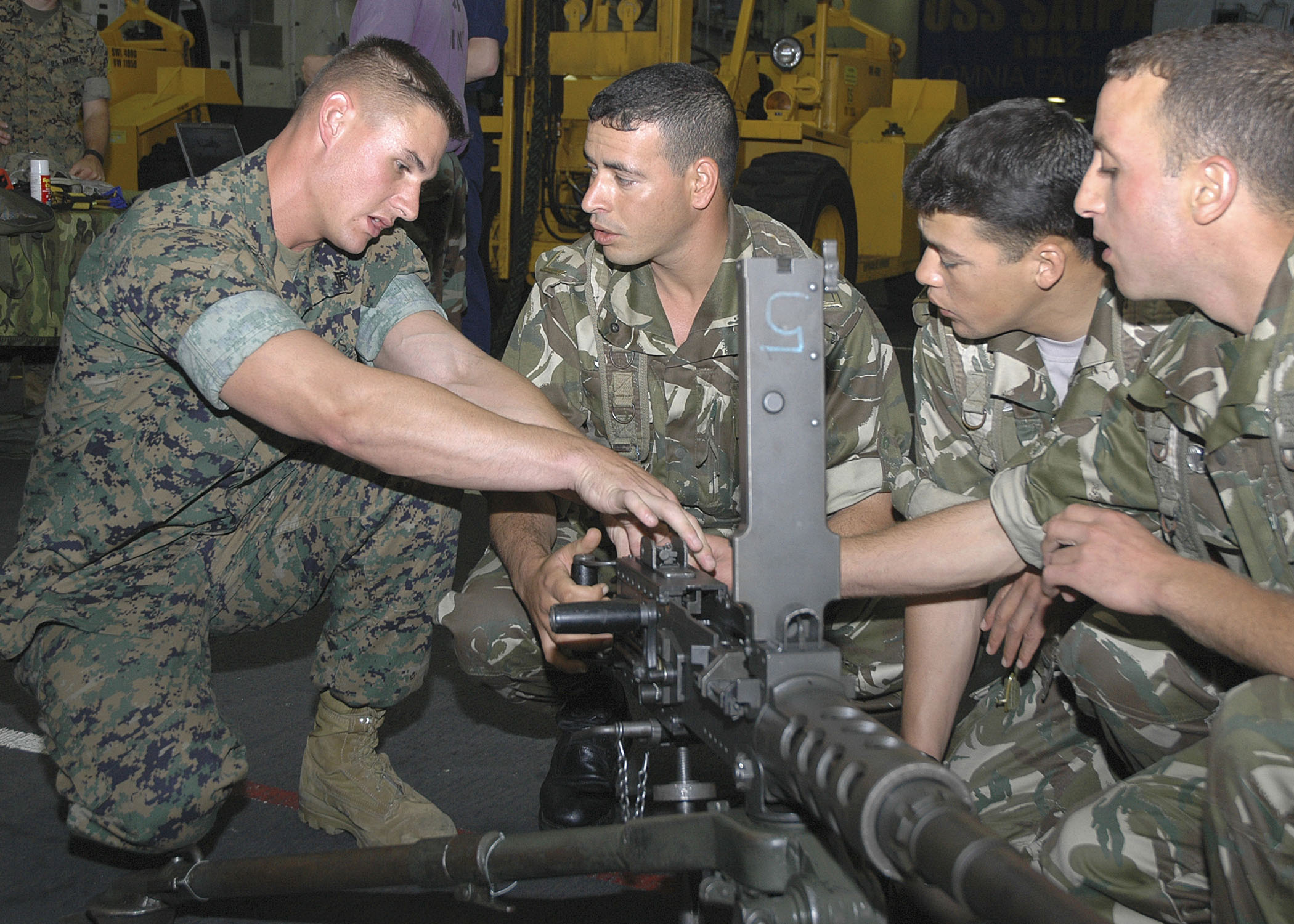 Mediterranean Sea (June 2,2006) - U.S. Marine Corps Cpl. Michael Rathwell instructs Algerian Sailors in the use of a .50 caliber machine gun. Rathwell is a member of 1st Fleet Antiterrorism Security Team 5th Platoon, assigned to Camp Allen, Norfolk Va., currently embarked aboard the amphibious assault ship USS Saipan (LHA 2). Saipan is participating in a multi-national combined exercise with North African and European forces during exercise Phoenix Express. The exercise provides U.S. and allied forces an opportunity to participate in diverse maritime training scenarios helping to increase maritime domain awareness and strengthen emerging and enduring partnerships. U.S. Navy photo by Photographer's Mate 3rd Class Erik K. Siegel (RELEASED)